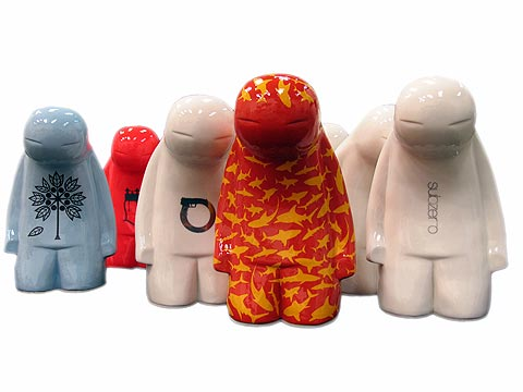 slip-cast porcelain figurines, each individually "branded" with its own logo, by artist Michael Salter